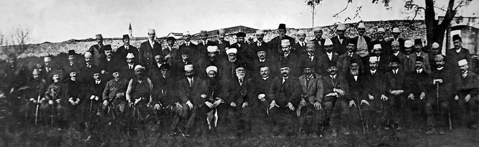 Members of the Assembly of Vlorë taken in November 1912 or November 1913